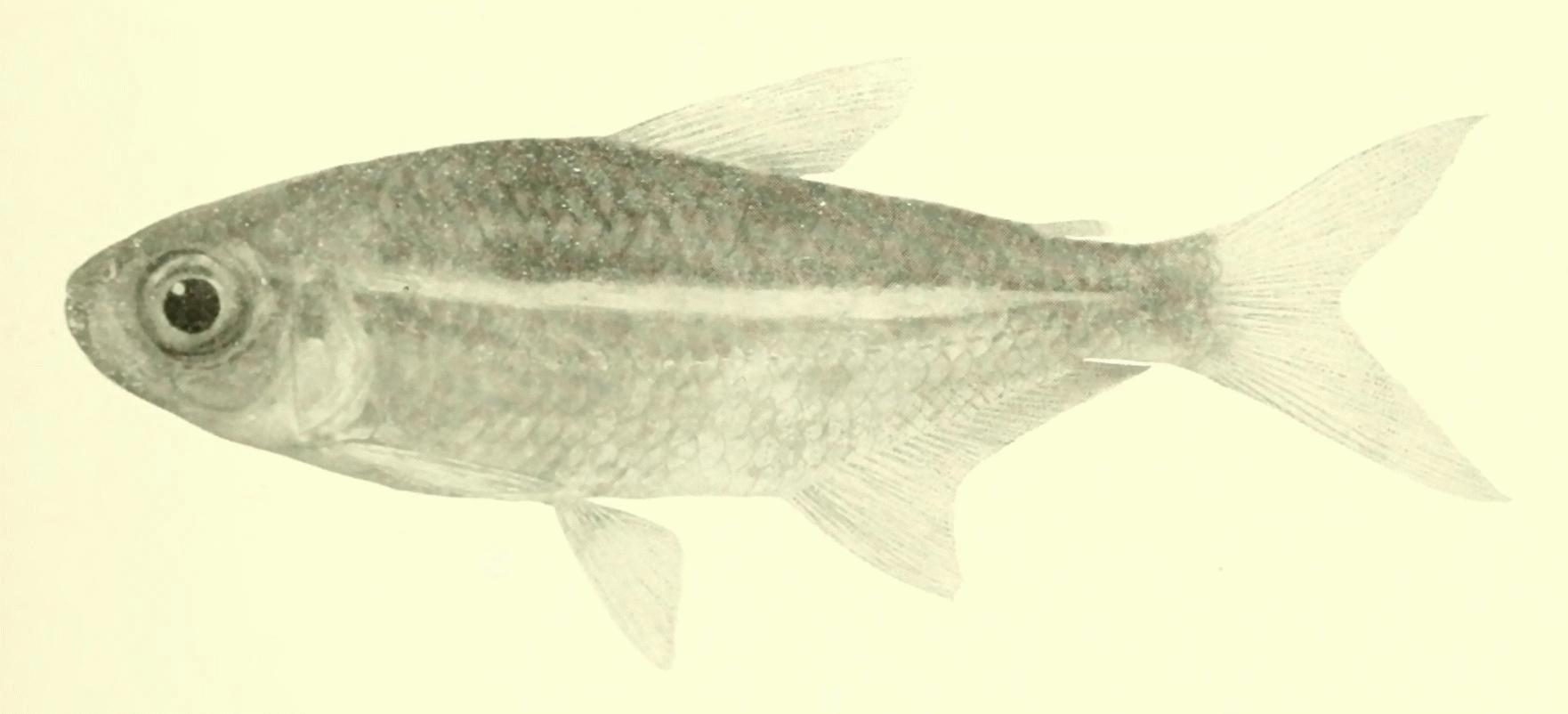 Annals of the Carnegie Museum - Astyanax marionae Cut-out from original (Annals of the Carnegie Museum (1911-1913) (18386689086).jpg) shown below